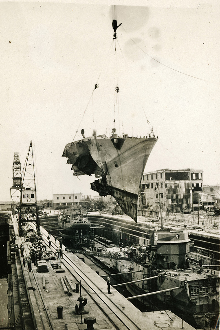 GER UJ 2222 (ex Tuffetto) & Santa Rita (Genova) MM MG